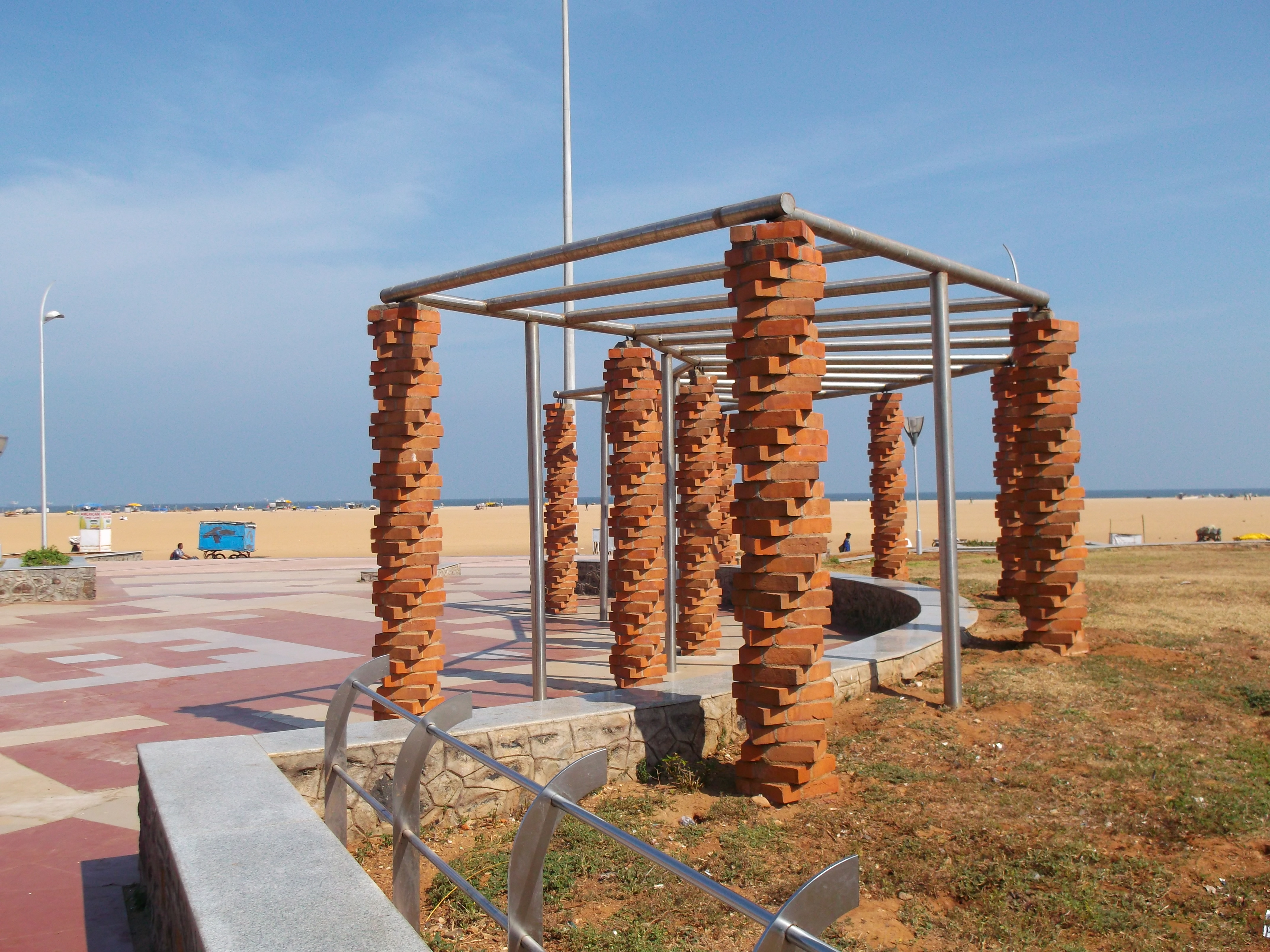 Decorative installations at Marina Beach, Chennai, taken on 2-Feb-2013, at 3:00 pm